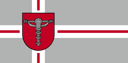 Flag of Grobiņa Municipality